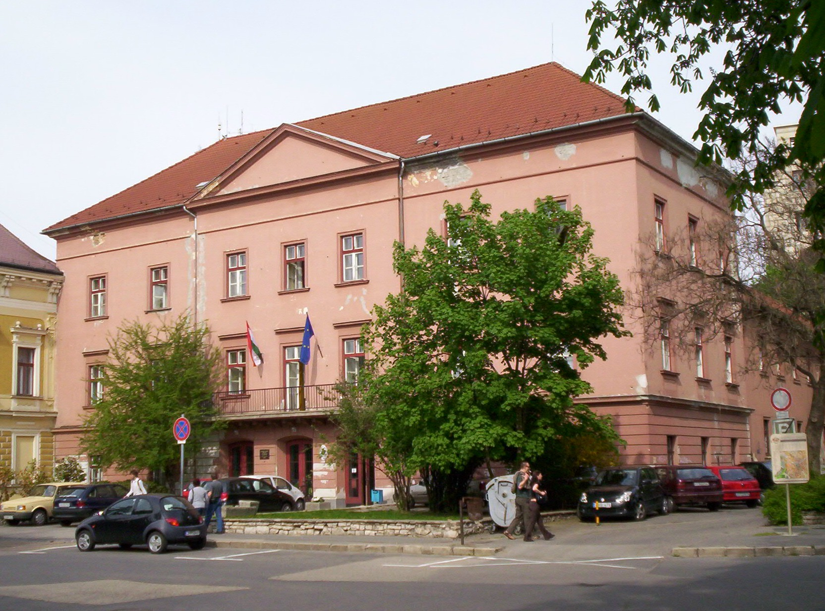 Csermák Antal Music School, Veszprém